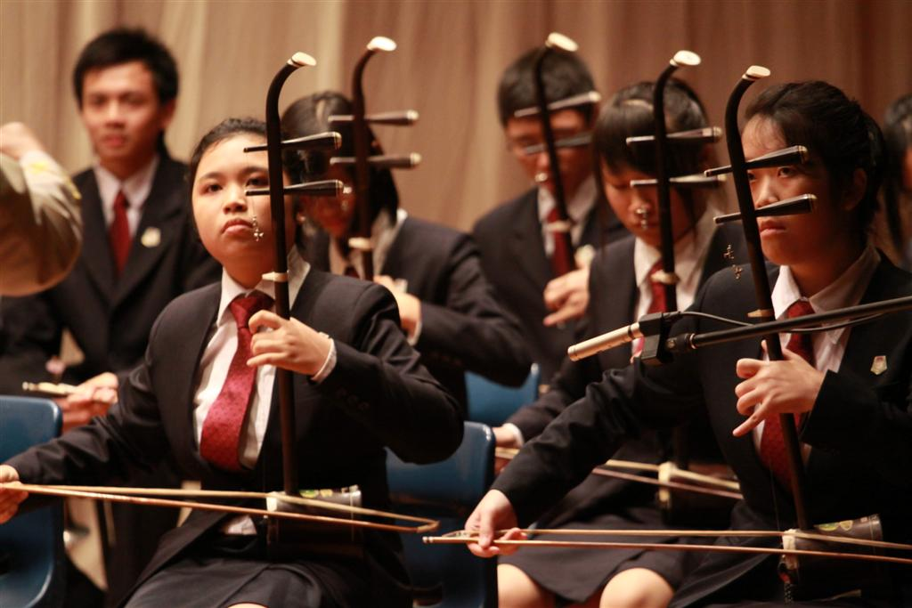 Erhu players in a Chinese orchestra in Yishun Junior College